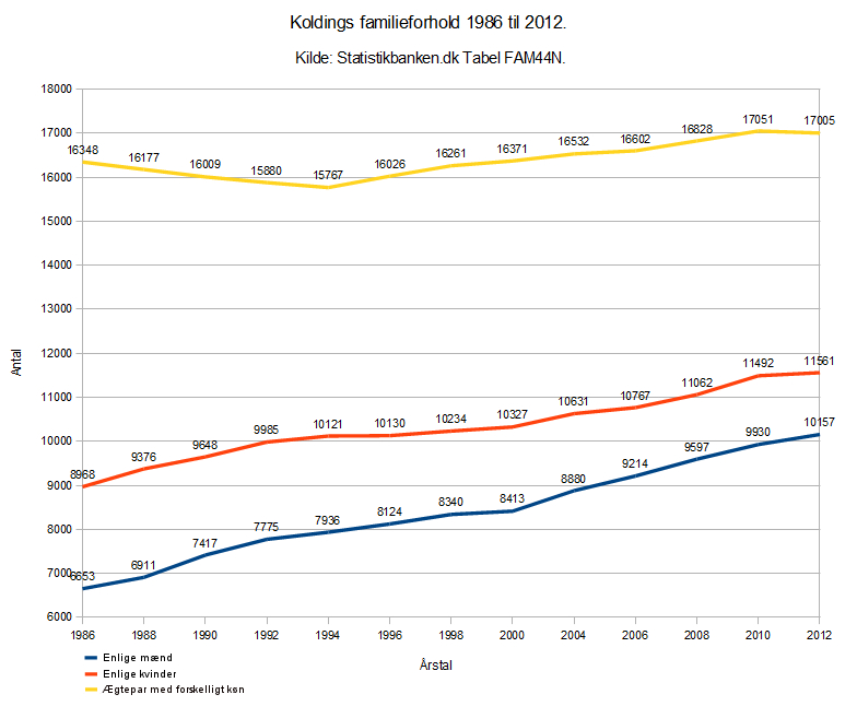 Kolding demographics family relations from 1986 to 2012. The graphs are for single men and women, and married couples of different sexes.